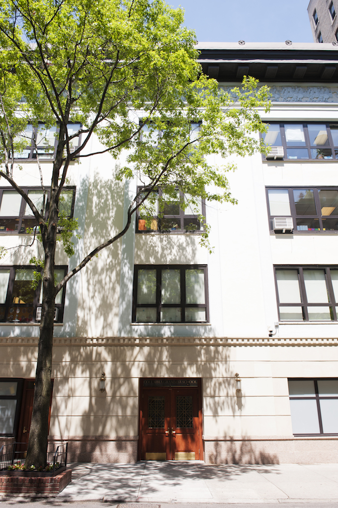 A view of 5 West 93rd Street